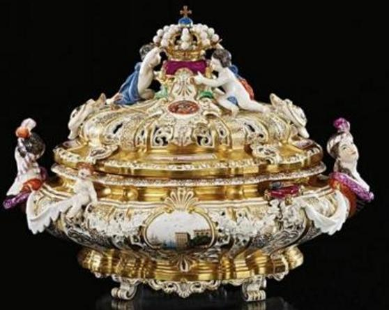 Waza z serwisu koronacyjnego Augusta III.Meissen 1733 rok